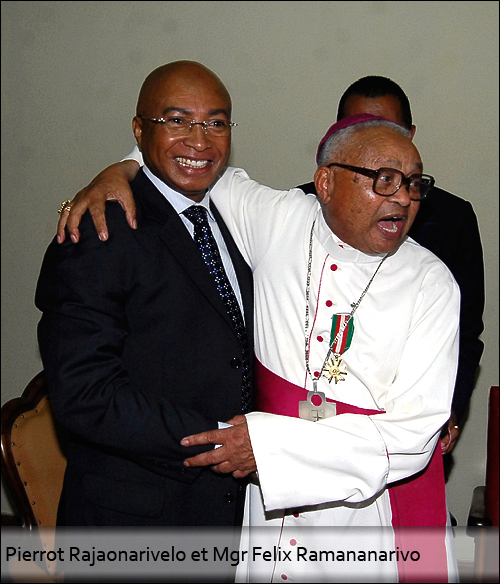 Pierrot rajaonarivelo